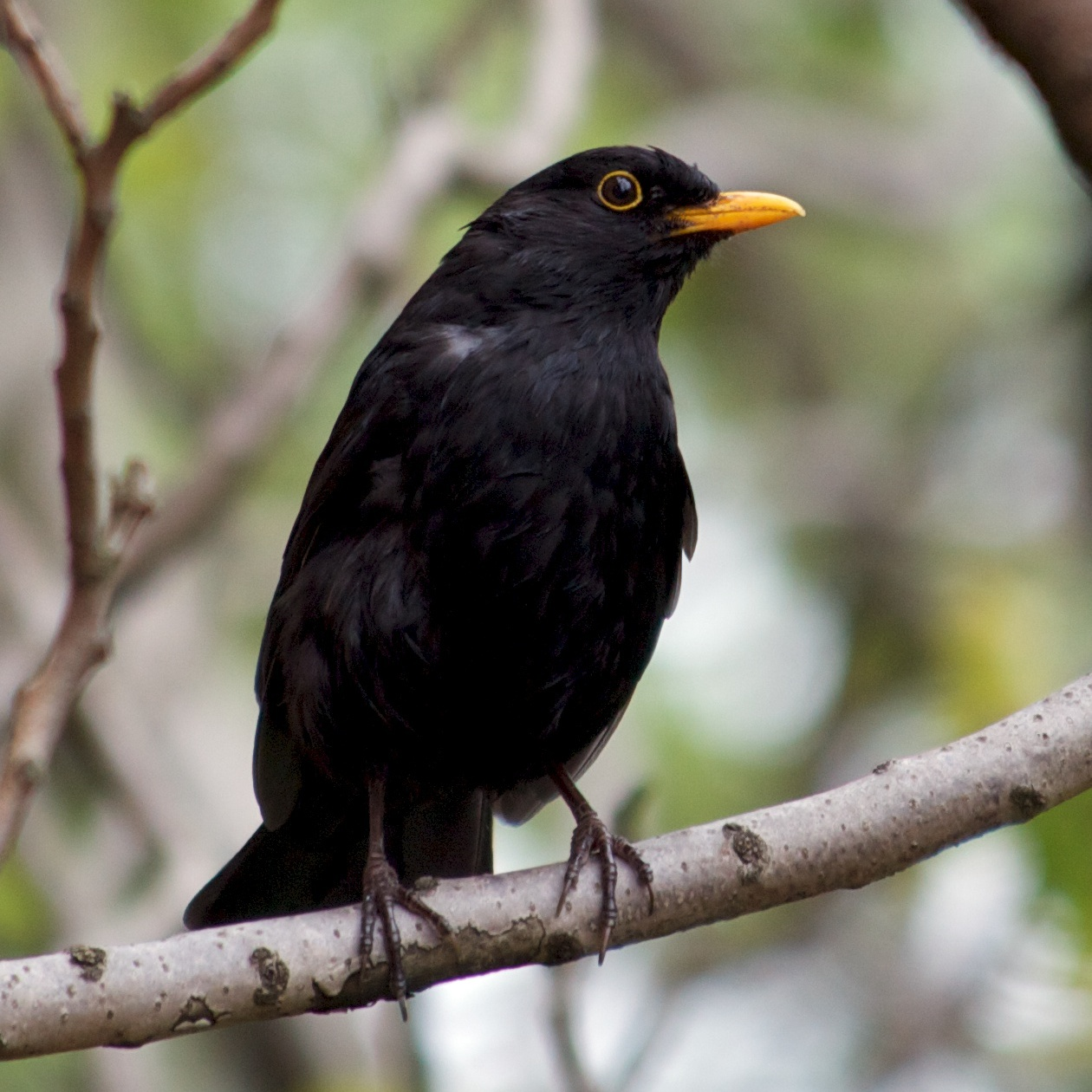 An male Common Blackbird in Manchester, England.